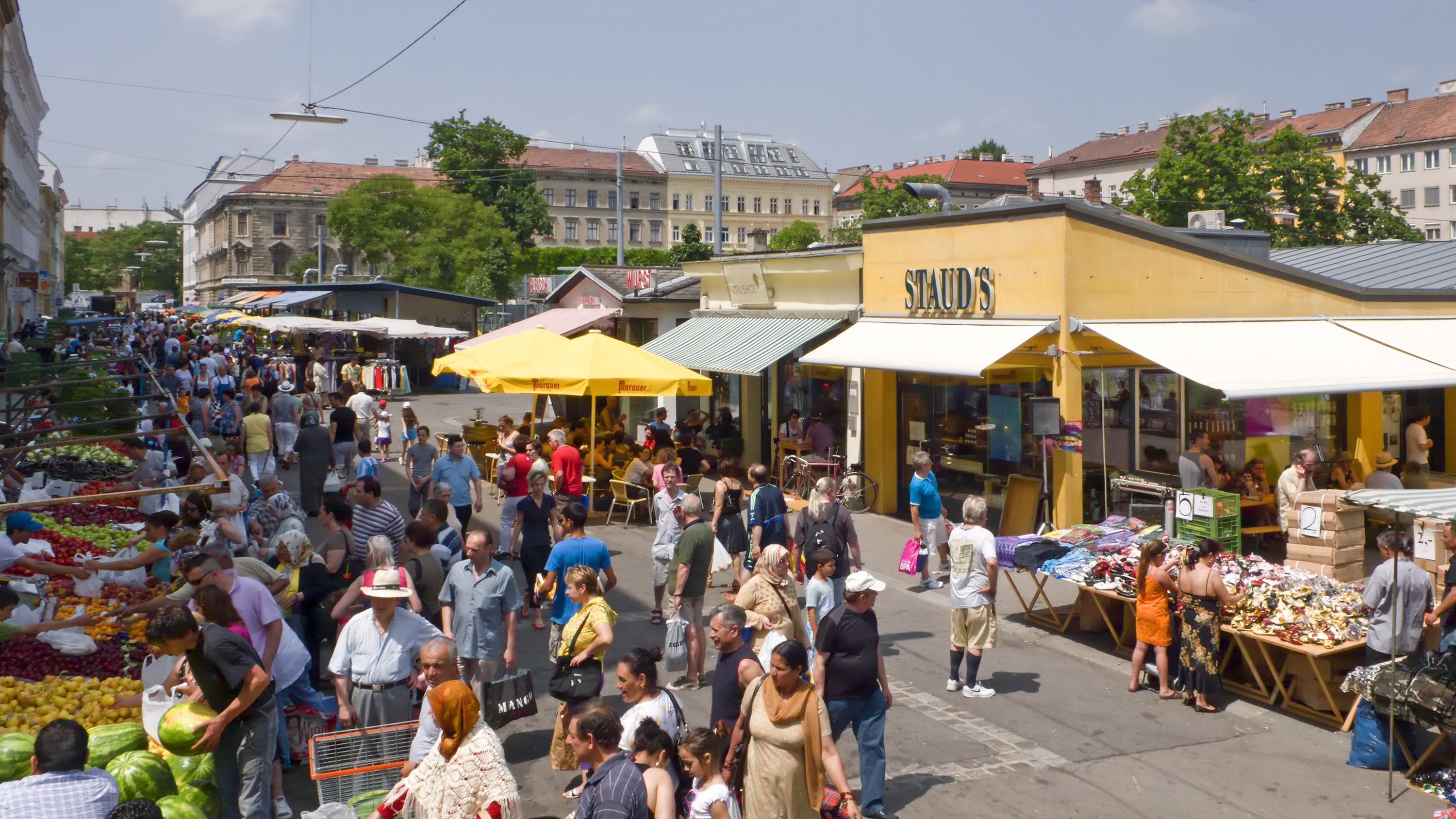 Market place Yppenmarkt in Vienna Ottakring